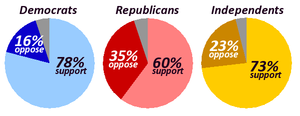 Responses to the question: "For future presidential elections, would you support or oppose changing to a system in which the president is elected by direct popular vote, instead of by the electoral college?" Data from Washington Post-Kaiser Family Foundation-Harvard University Survey of Political Independents, conducted May-June 2007, available at